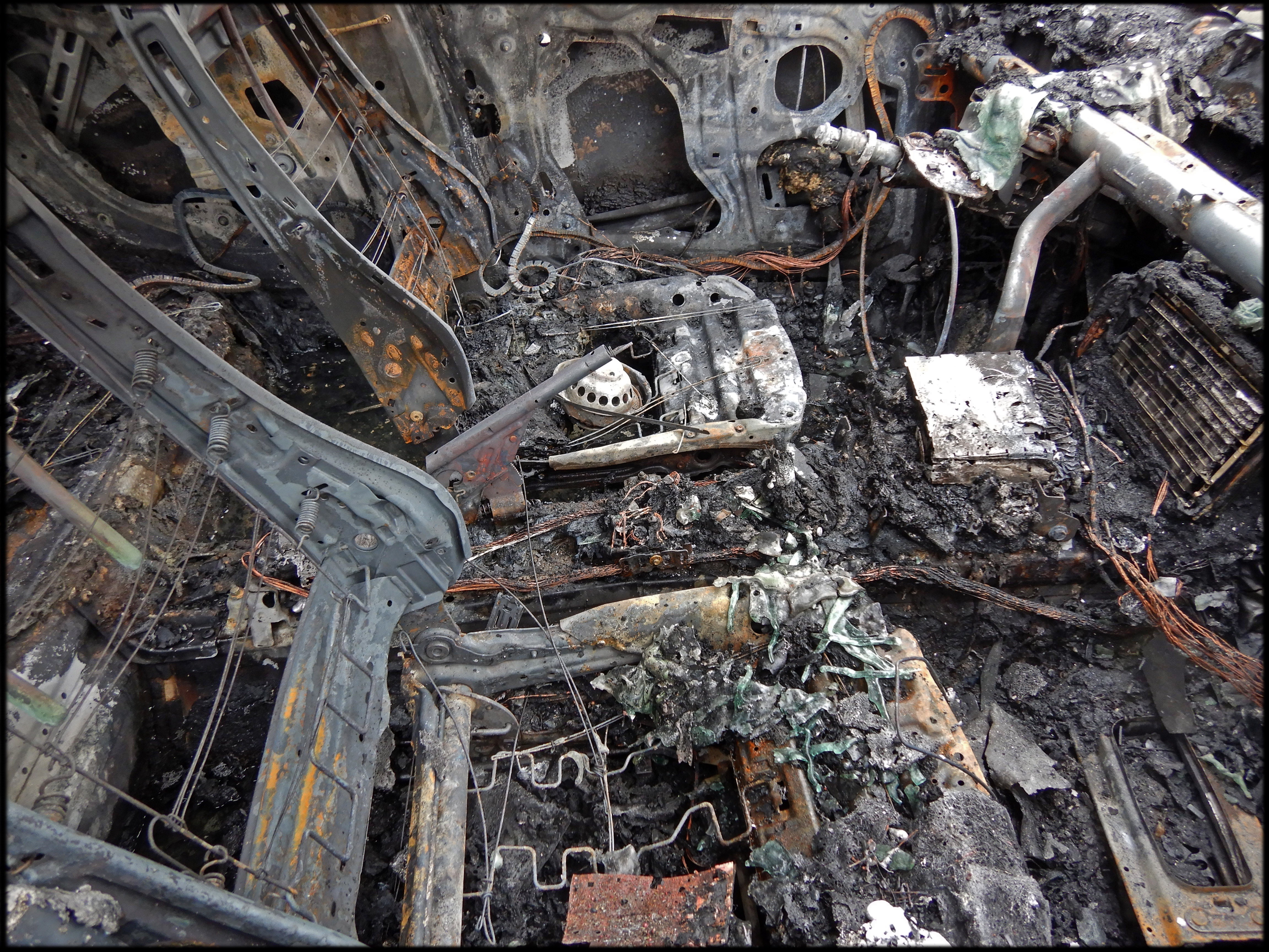 burned car (BMW)